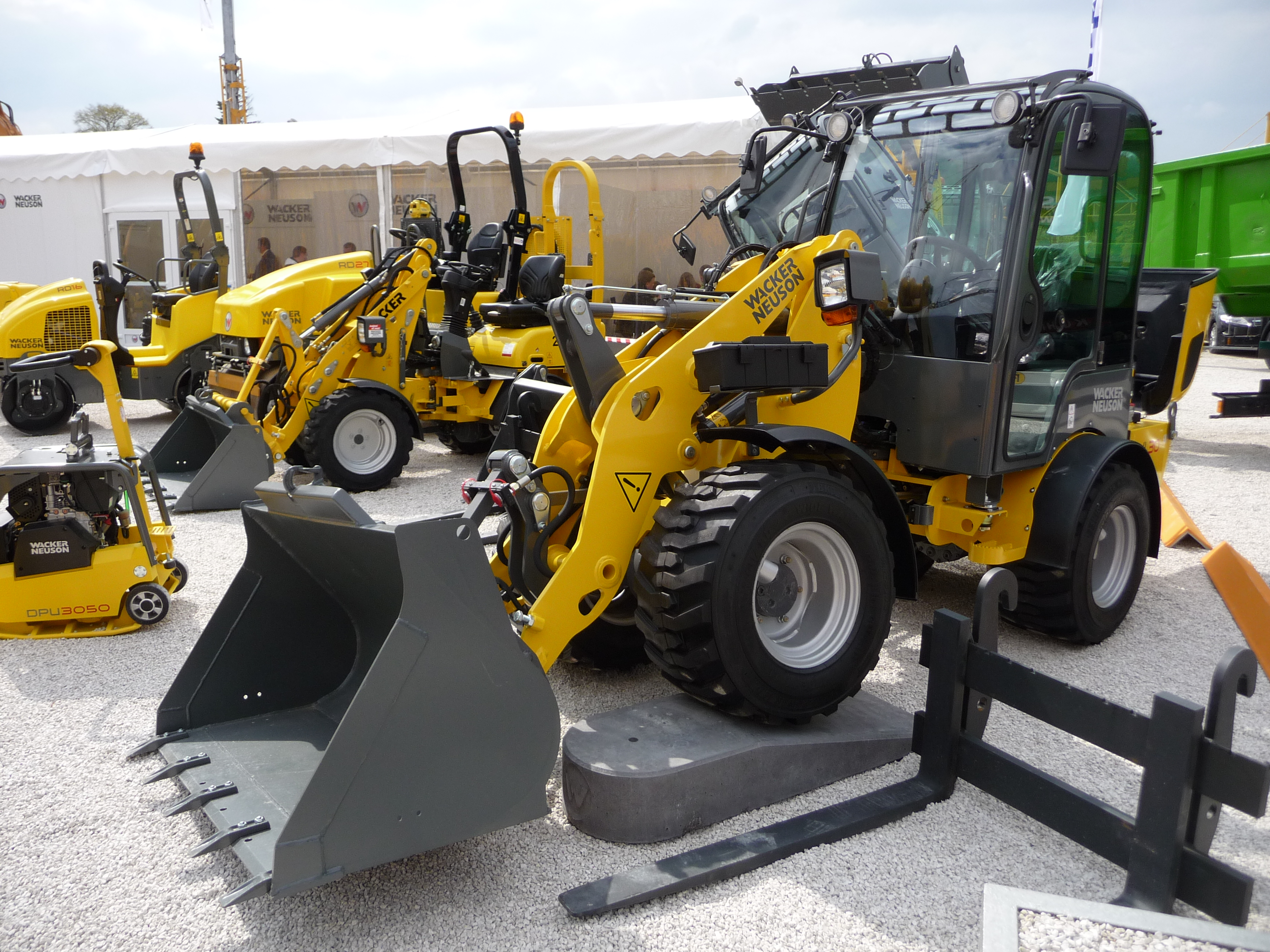 Wheel loader Wacker Neuson WL 30, Building Fairs Brno 2011 -10 -5 -3 -2 ◄ ► +2 +3 +5 +10